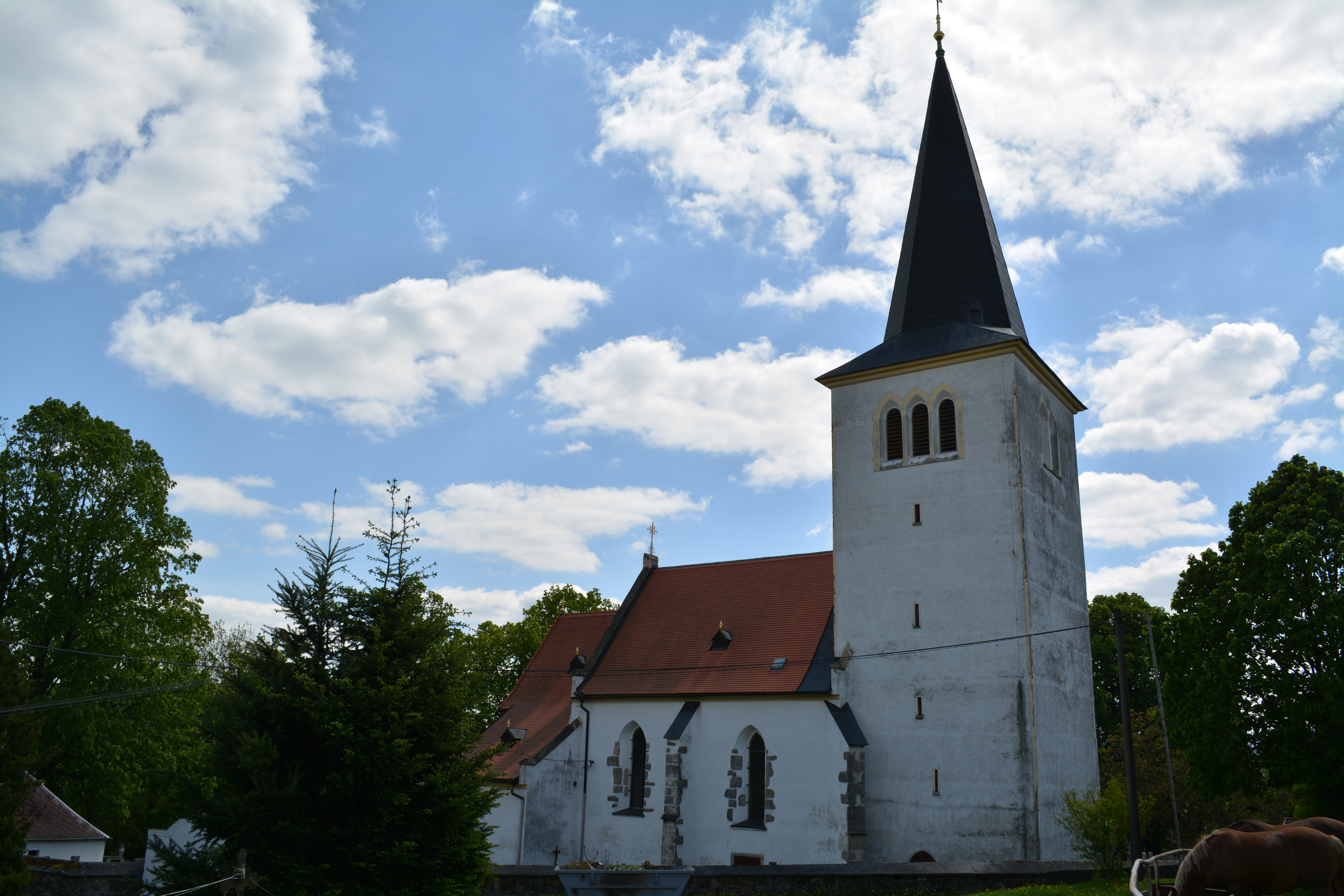 Church Narození Panny Marie